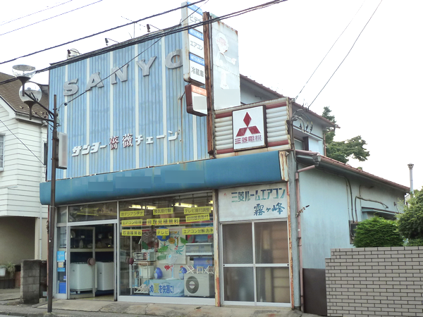 A Shop of SANYO Bara Chain